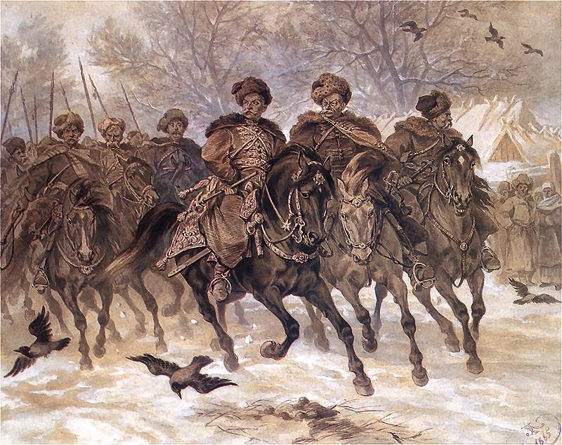 Kmicic's company - some of the heroes of the Ogniem i Mieczem book (and movie)